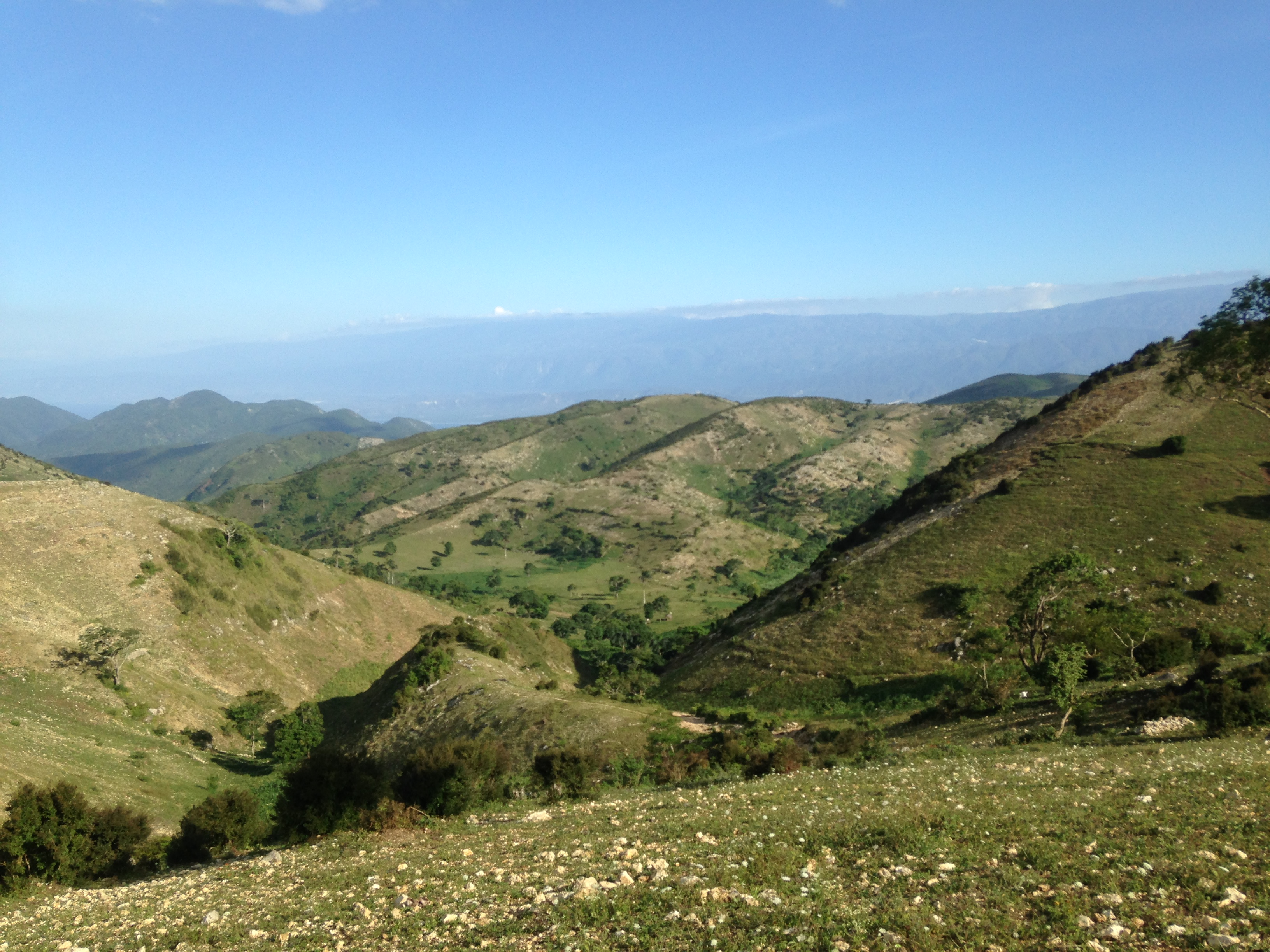 The border region between Haiti and the Dominican Republic. The border runs approximately horizontally through the middle of the picture. The photo was taken from Grand-Bois, in the Haitian municipality (commune) of Cornillon. The mountains in the back of the photo are located in the Dominican Republic.